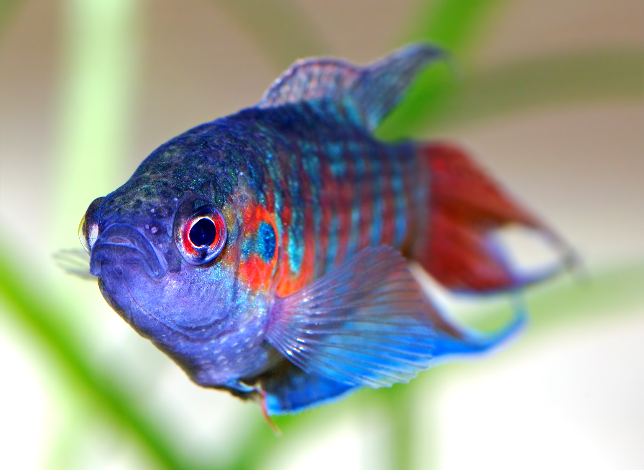 This image shows a Paradise fish (Macropodus opercularis).